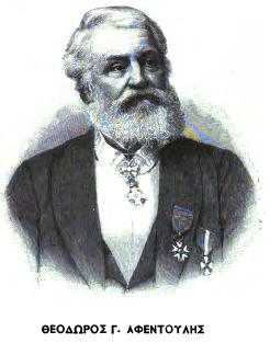 Poikilē stoa: ethnikē eikonographēnenē epetēris ... Etos 1-16, 1881-1914 (1894) Author: Ioannes A. Arsenēs , Michael A . Raphaelobits Volume: 10 Publisher: Estia Year: 1894 Possible copyright status: NOT_IN_COPYRIGHT Language: Greek Digitizing sponsor: Google Book from the collections of: Harvard University Collection: americana